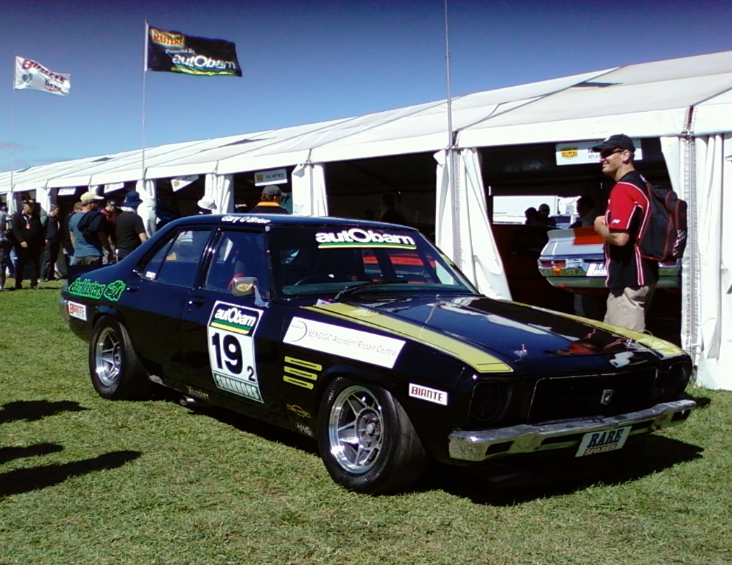 The Holden HQ SS of Gary O'Brien at the opening round of the 2010 Touring Car Masters at the 2010 Clipsal 500 Adelaide race meeting.